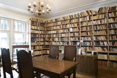 Library of SASA, The Legacy of Marko Ristić